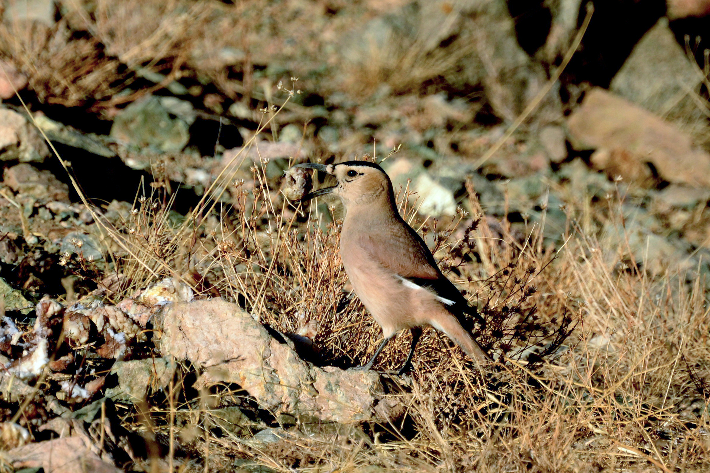 Henderson's Ground jay or Mongolian Ground Jay is a bird of the Corvidae family.